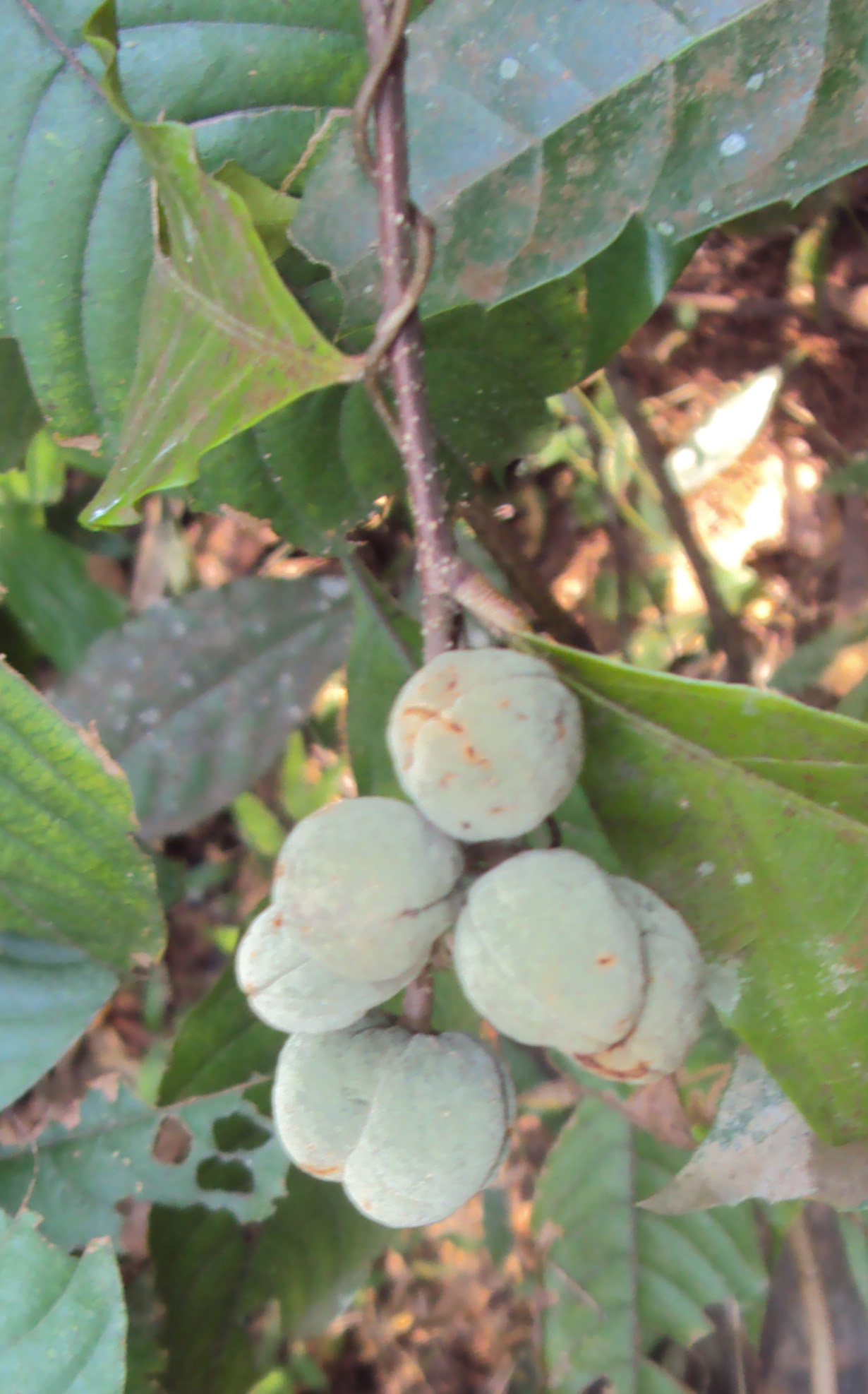 Dichapetalum gelonioides